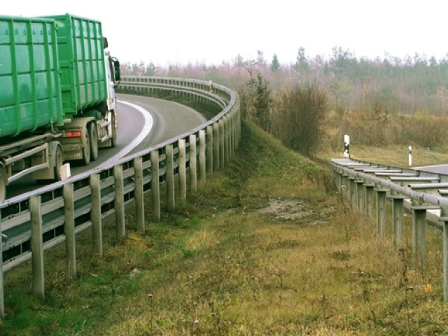 Super-Rail™ Crash Barrier (left)